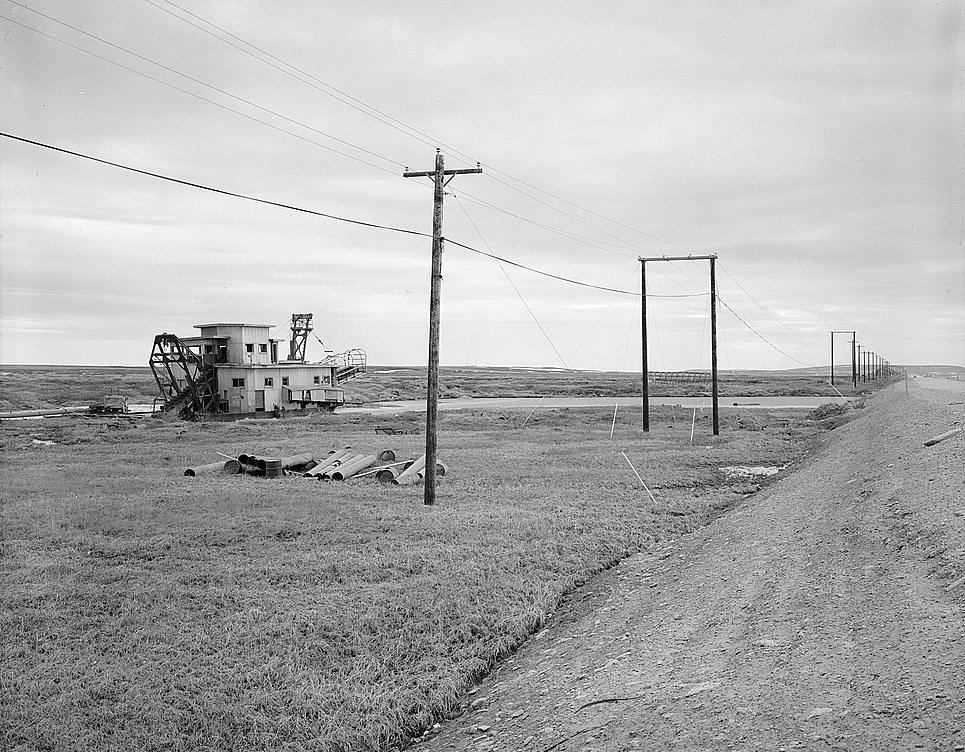 Roadside view of the Swanberg Dredge, a piece of dredging equipment located at mile 1 of the Nome-Council-Highway. The dredge lies near Nome, a city in the Nome Census Area of the U.S. state of Alaska. Built in 1946, it was added to the National Register of Historic Places on 12 March 2001.